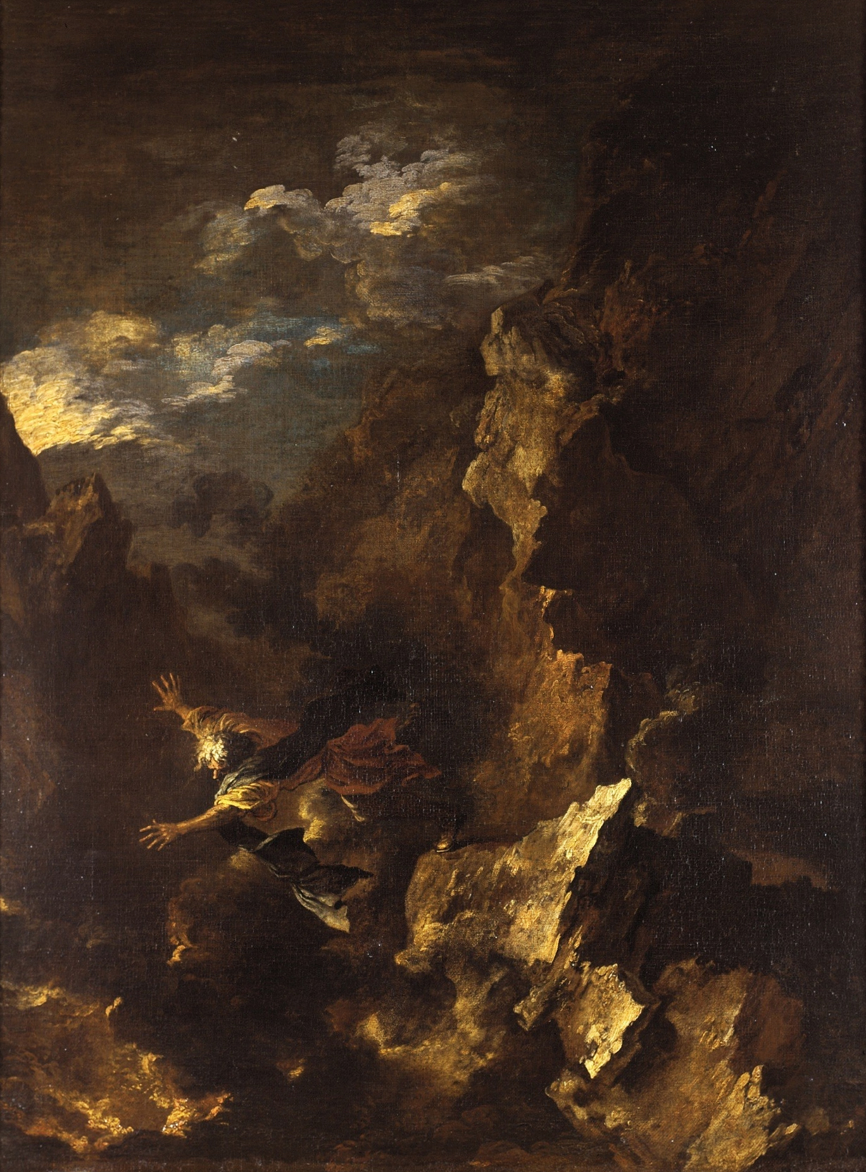 Salvator Rosa, 'The Death of Empedocles', c. 1665 – 1670, Oil on canvas, 135 x 99 cm, Private collection (Helen Langdon, Salvator Rosa - Dulwich Picture Gallery, London 2010, p. 213). According to Helen Langdon, the real theme of the work is ‘man’s desire to lose himself in the immensity and violence of natural forces’.